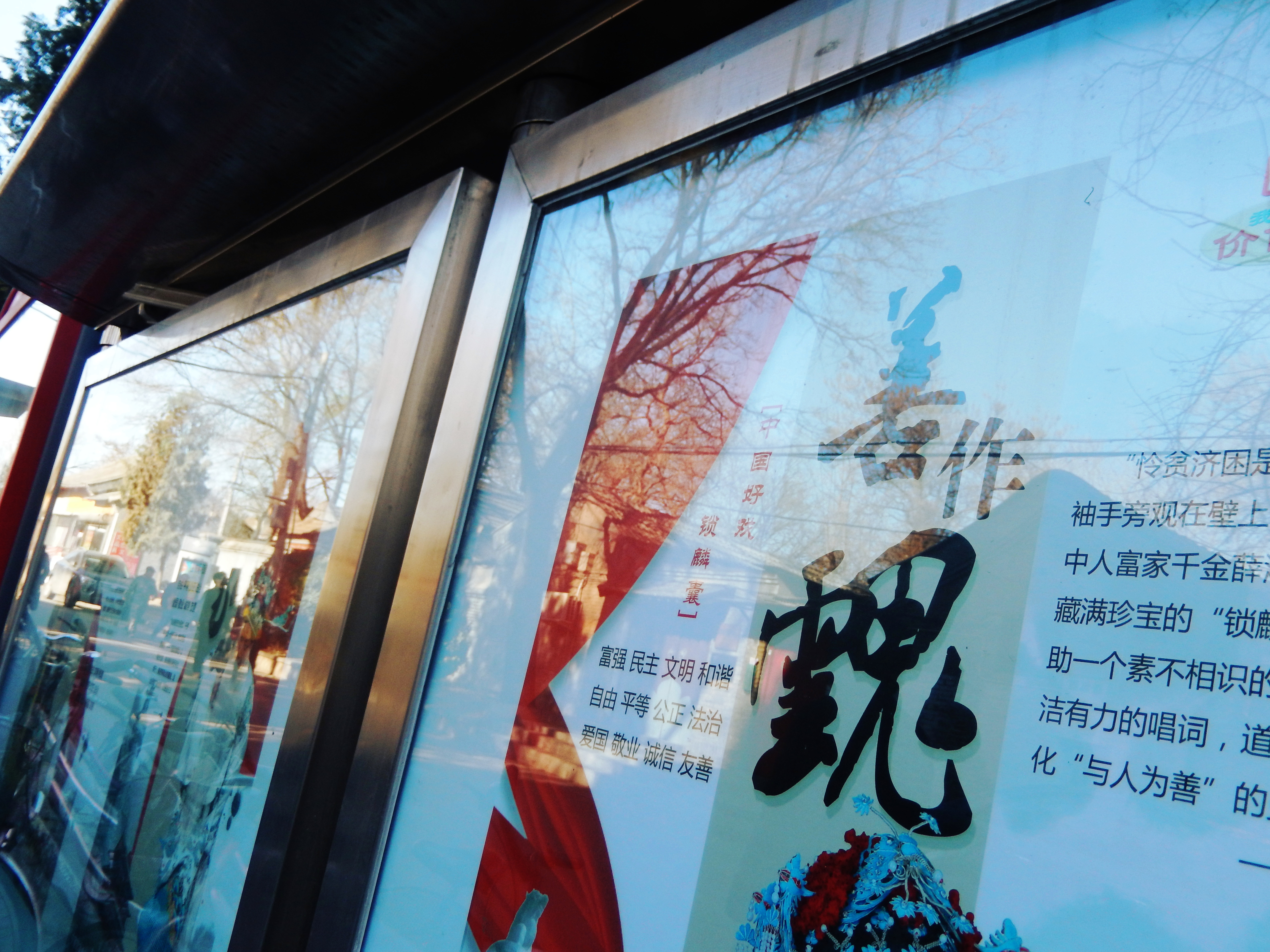 On a poster in mainland China, the left component of the character "魂" was erroneously written as "雲" instead of the correct "云". Simplified Chinese has merged the components "雲" to "云", and the writer, apparently unfamiliar with traditional Chinese, mistakenly thought that the component "云" in the character "魂" was originally "雲" in traditional Chinese, while this character remains actually the same in both simplified and traditional Chinese.